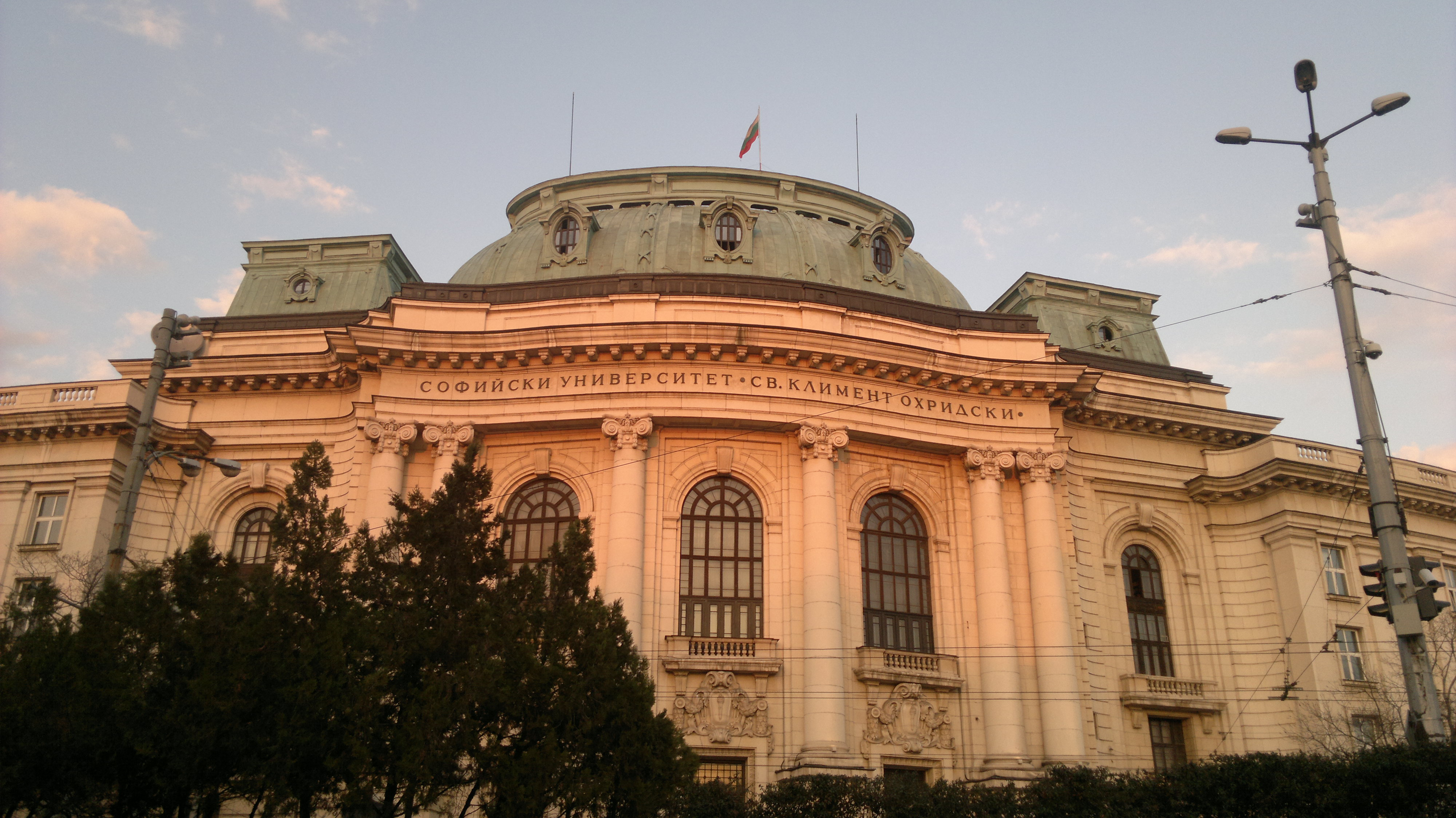 Sofia University main entrance